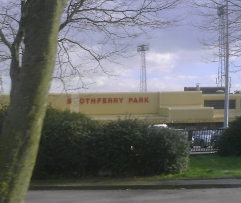 Boothferry Park, Boothferry Road, Hull, East Riding of Yorkshire, England. Source: Rooster Rulez took this picture on 6 April 2007.